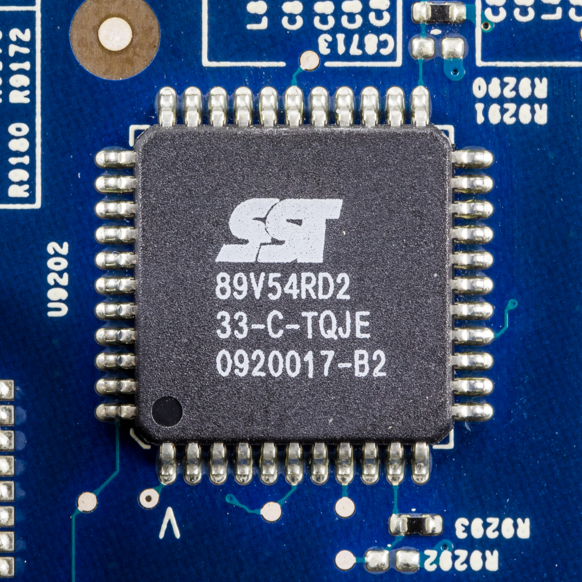 Apple TV, 1st generation - mainboard - Silicon Storage Technology 89V54RD2 - FlashFlex51 MCU (8-bit 8051-Compatible Microcontroller). Package: 44 pin TQFP